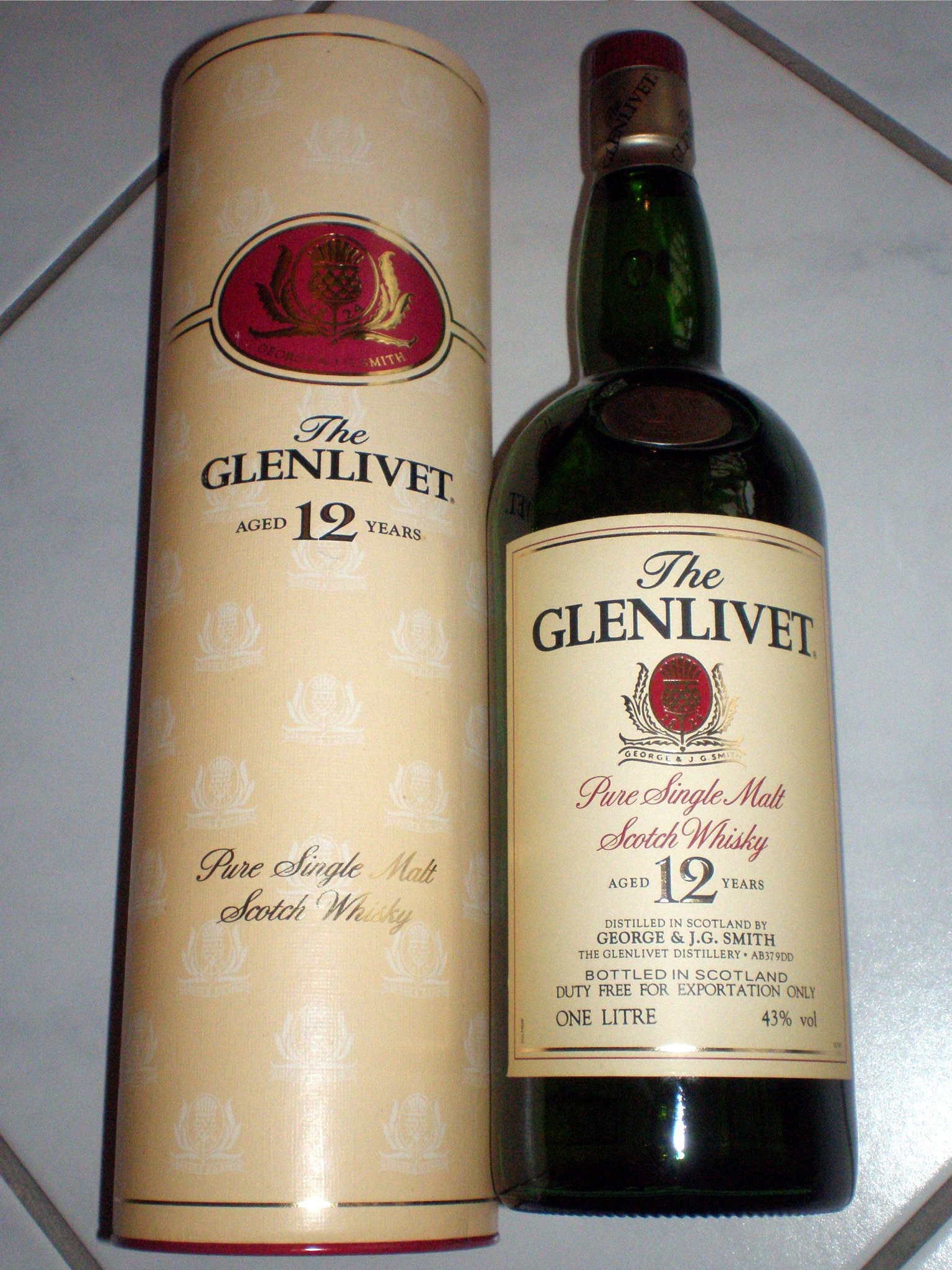 Glenlivet bottle and can from 1990. (12 Year Single Malt)